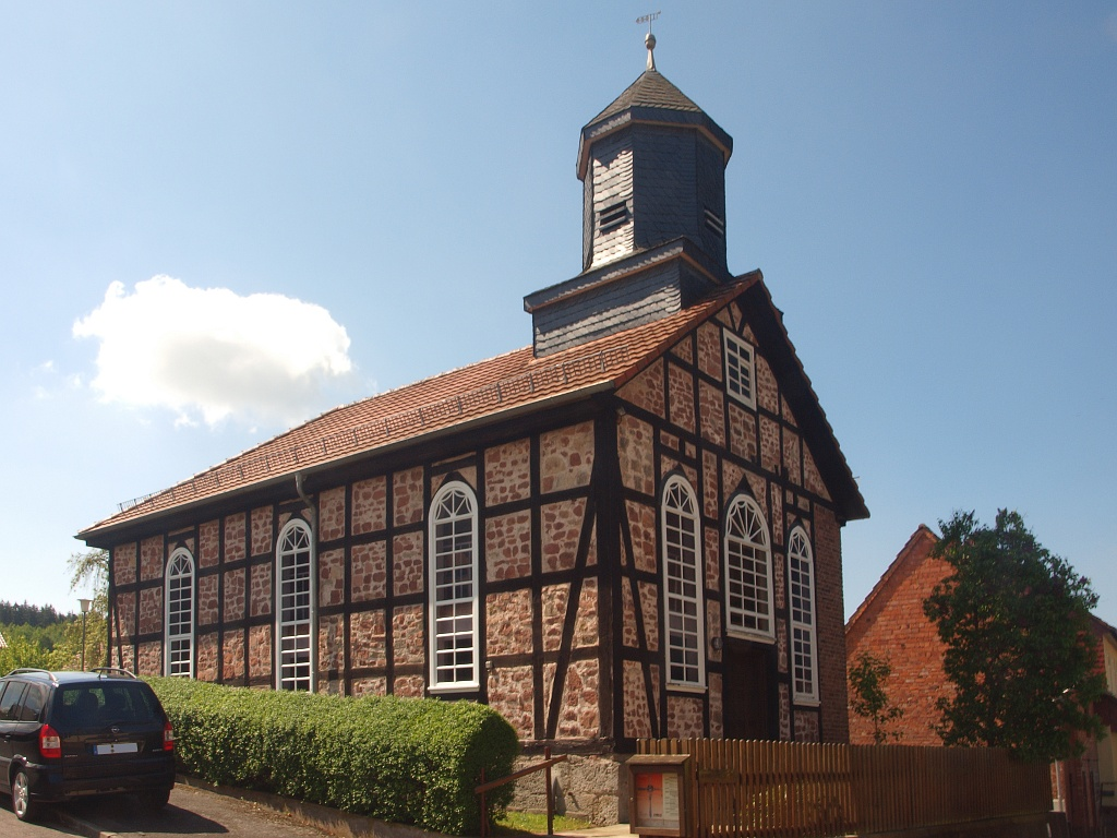 bricked half-timbered church in Ronshausen-Machtlos, inaugurated in 19th of October 1851